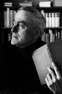 Gaston Cherpillod